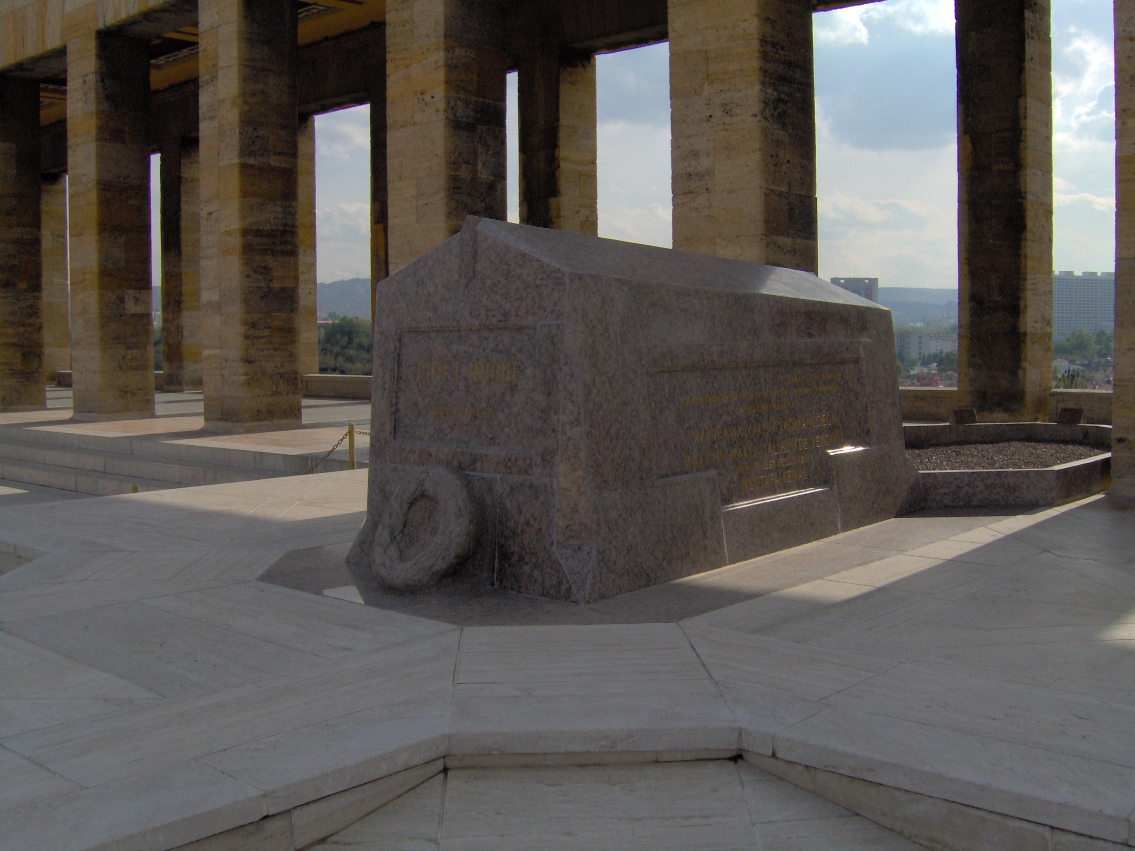 Tomb of İsmet İnönü at Anıtkabir Mausoleum in Ankara. Taken by ProhibitOnions, 2005.